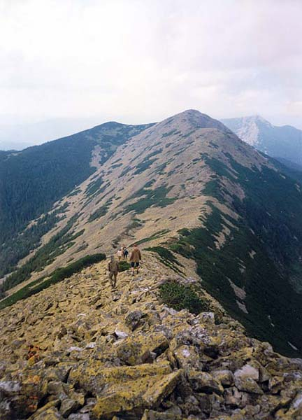 Dovbushanka